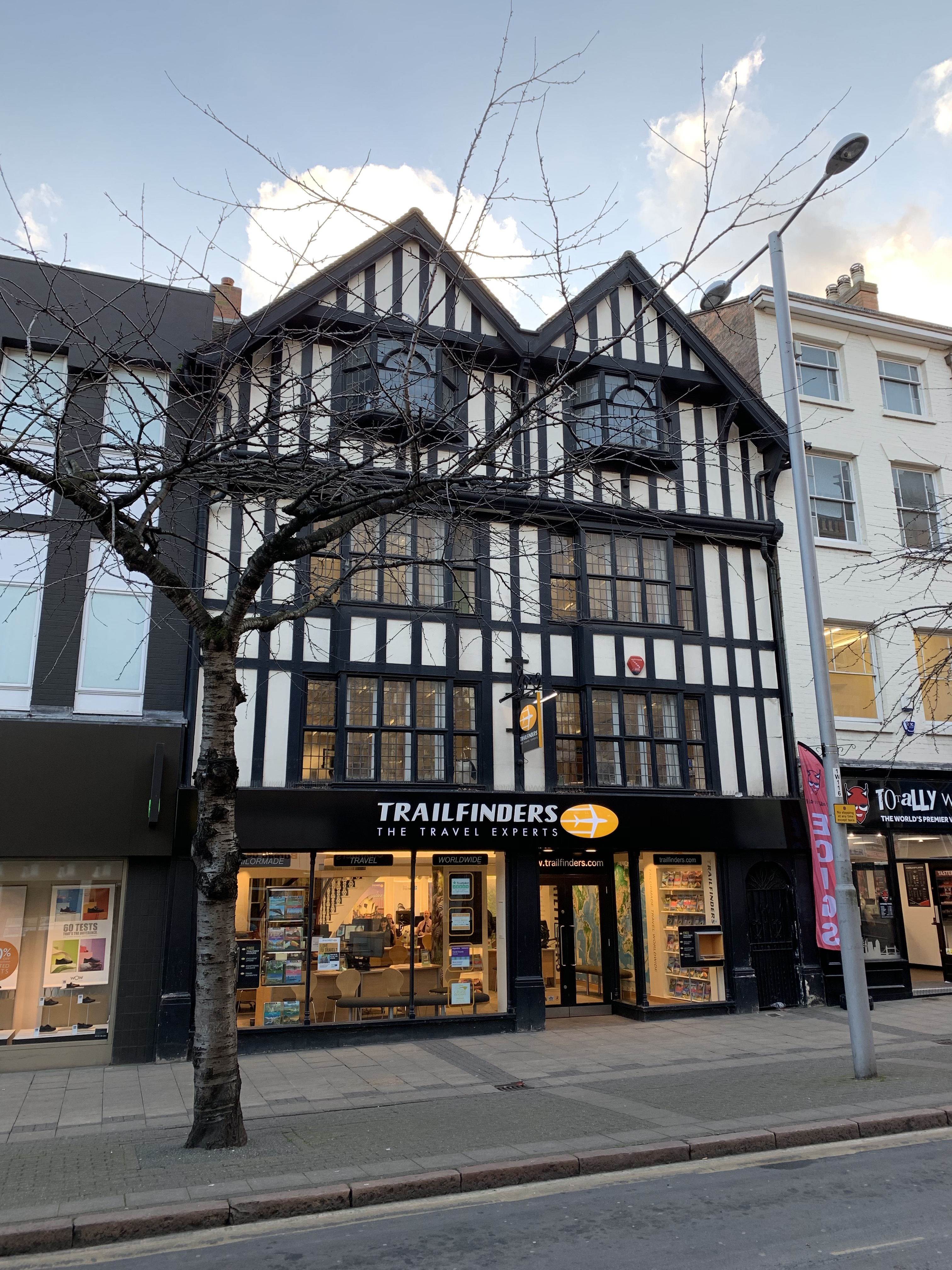 34 to 36, Wheeler Gate, Nottingha. Now Trailfinders. By John Armitage, 1908.